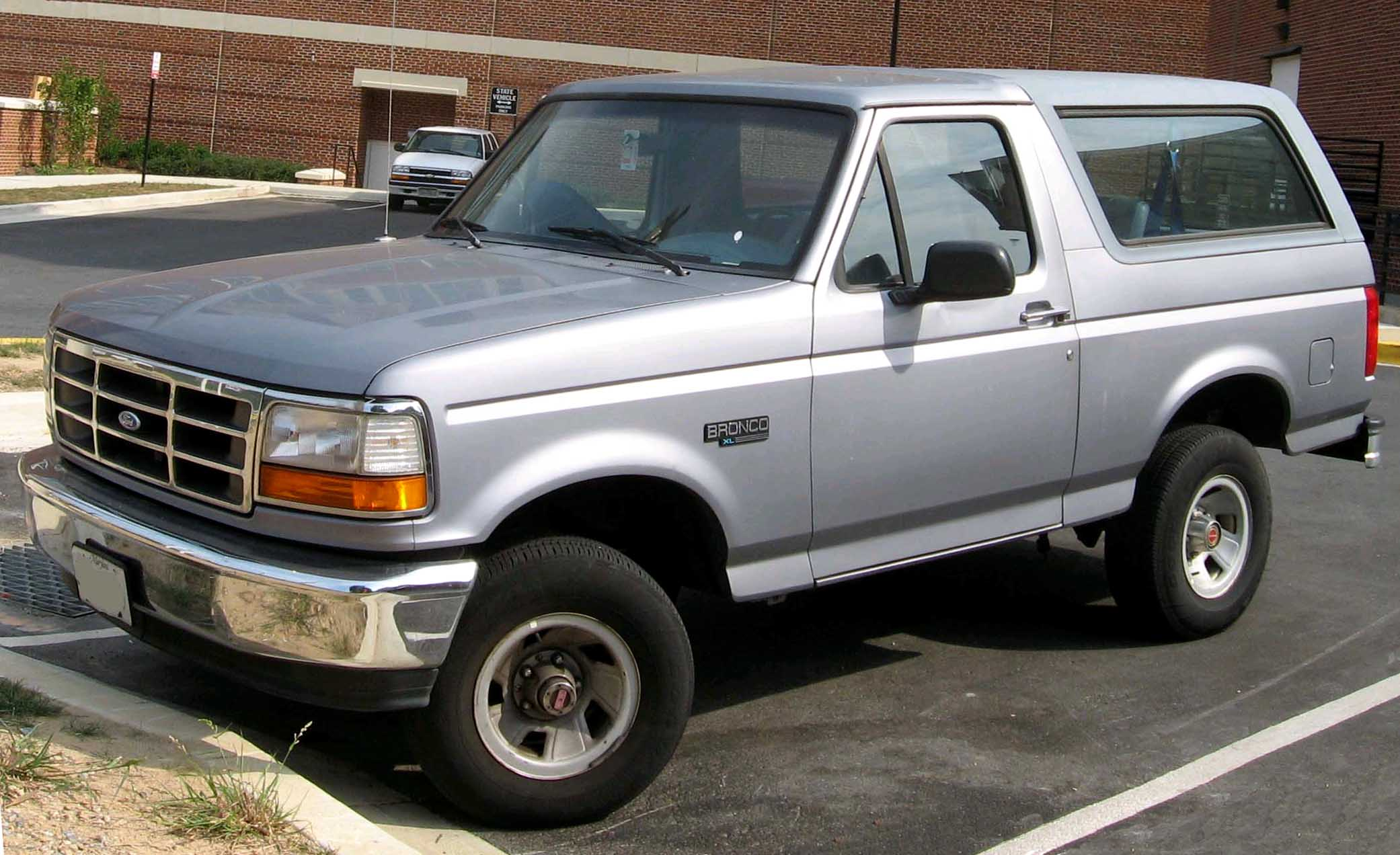 1980-1996 Ford Bronco photographed in College Park, Maryland, USA.